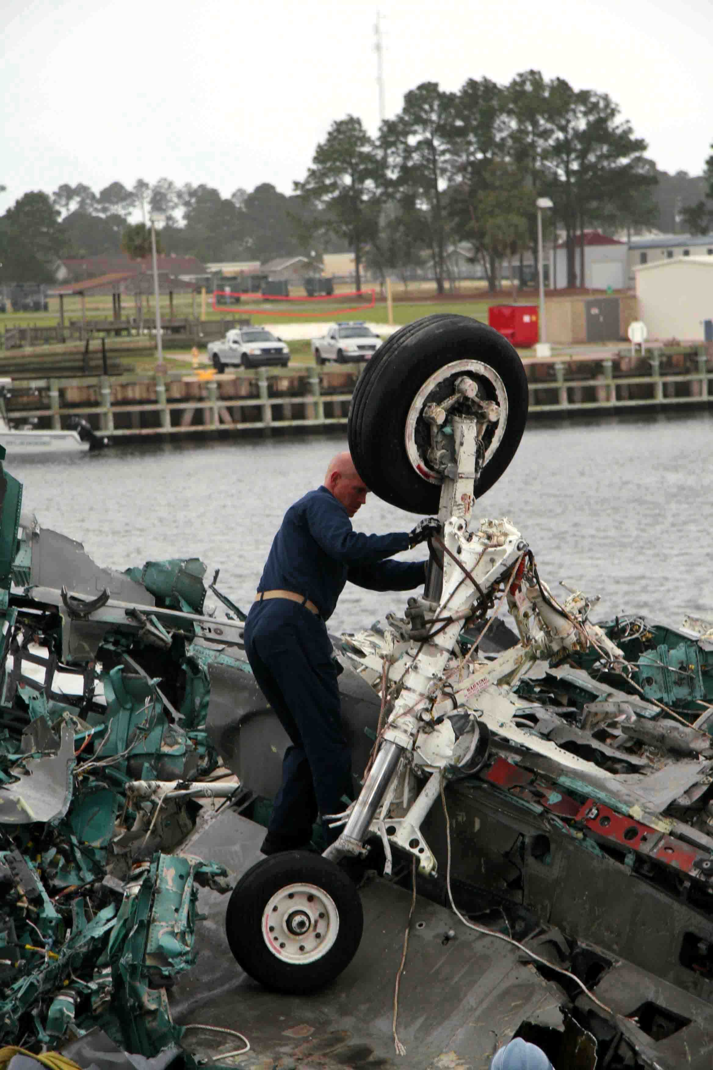 The crew of the Military Sealift Command rescue and salvage ship USNS Grasp offloads the recovered wreckage of an Air Force F-15C fighter jet at Naval Support Activity Panama City. The aircraft, assigned to the 33rd Fighter Wing at Eglin Air Force Base, was recovered by Mobile Diving and Salvage Unit 2 from Naval Amphibious Base Little Creek, Va. (U.S Navy photo/Mass Communication Specialist 2nd Kevin Bowlin)